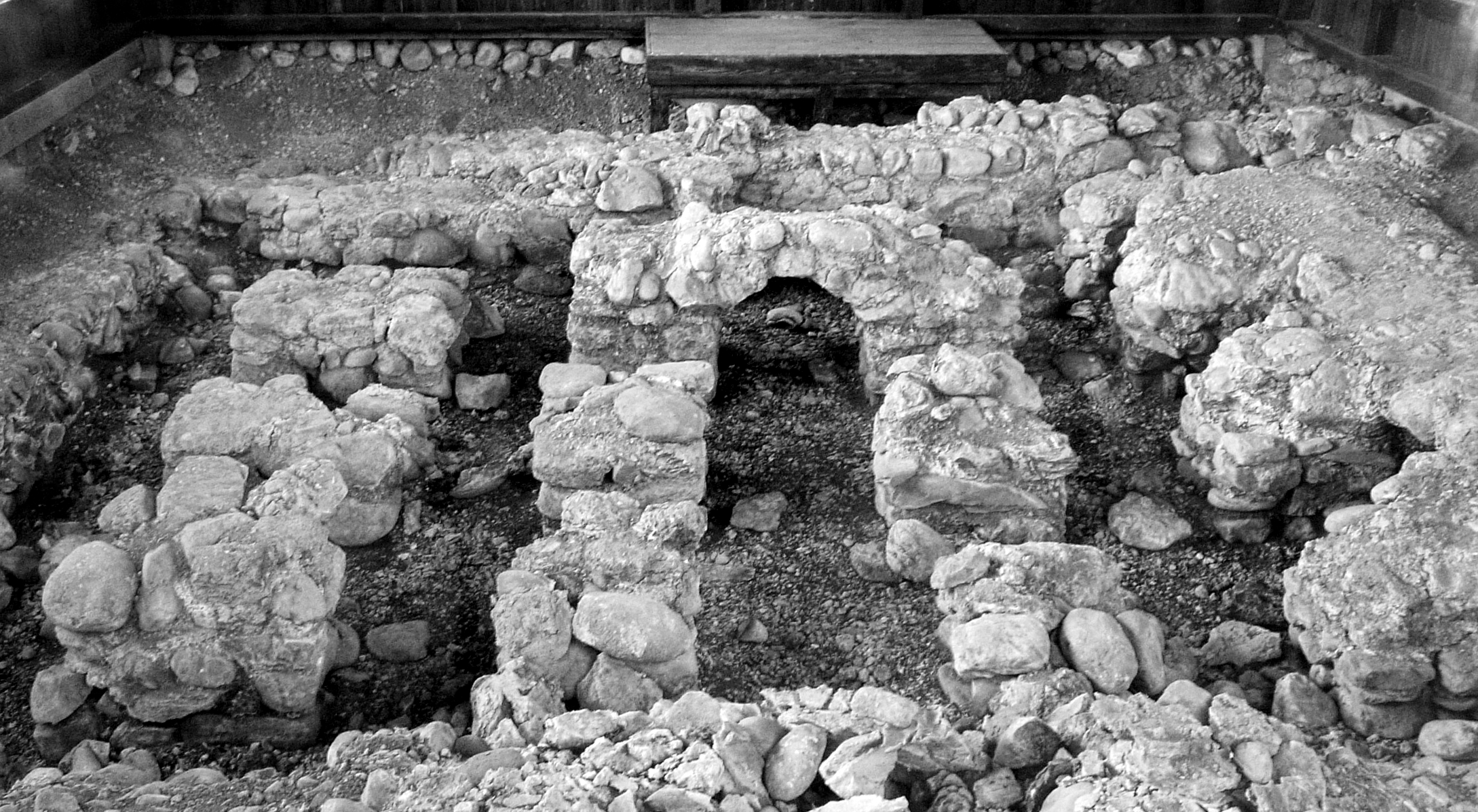 Excavated hypocaust (view to west) of an villa rustica (roman imperial time) near Holzhausen, municipal Bergen, district Traunstein, Upper Bavaria.